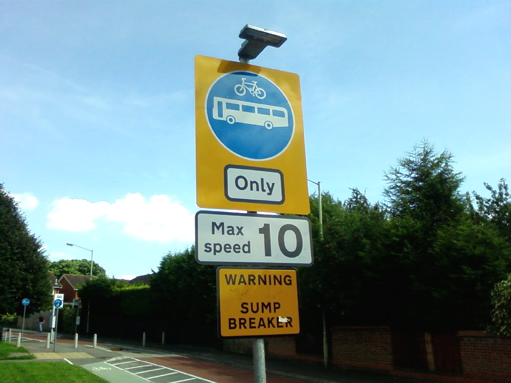 Photo of sump buster and corresponding road sign in Calcot, Berkshire, near Reading.